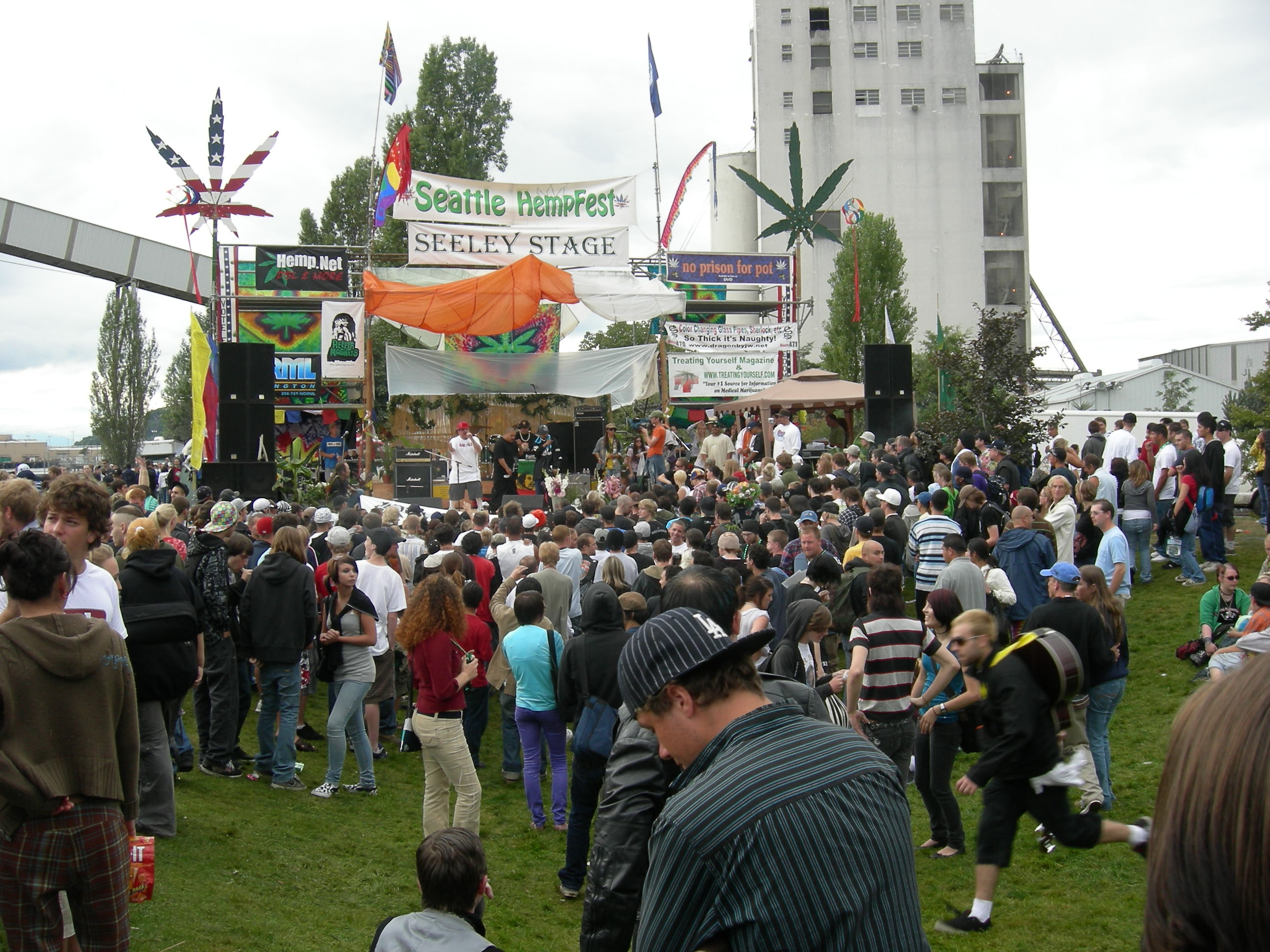 Seely Stage (named after the late attorney Ralph Seely, a medical marijuana activist), Seattle Hempfest, 2007.